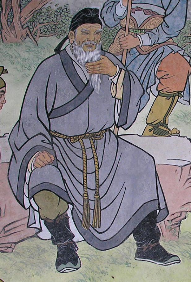 A close up photo of a painting of Zhou Tong from the Yue Fei Temple in Hangzhou, China.